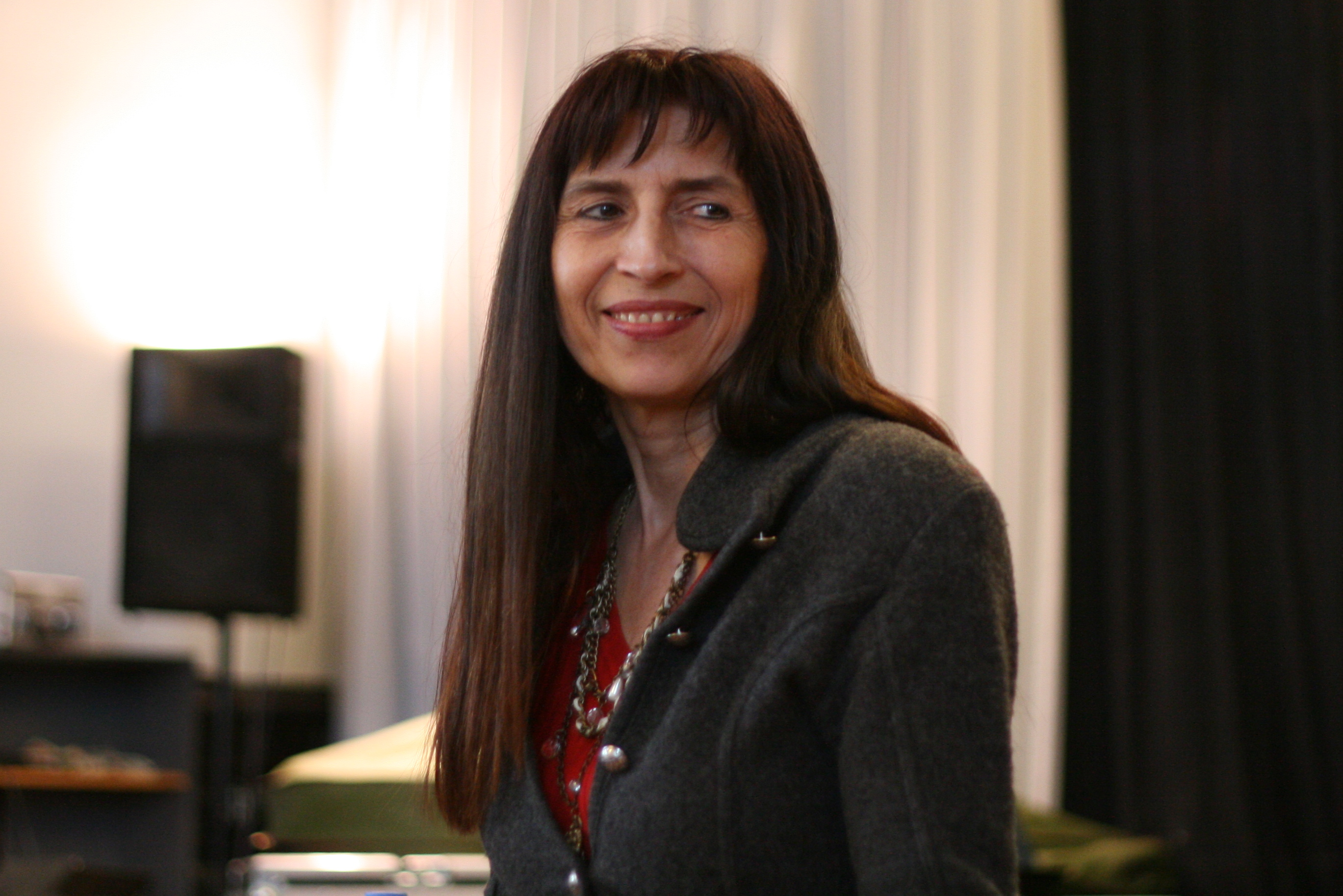 French author, Martine Pouchain, while presenting her book, Chevalier B., to a group of German students.